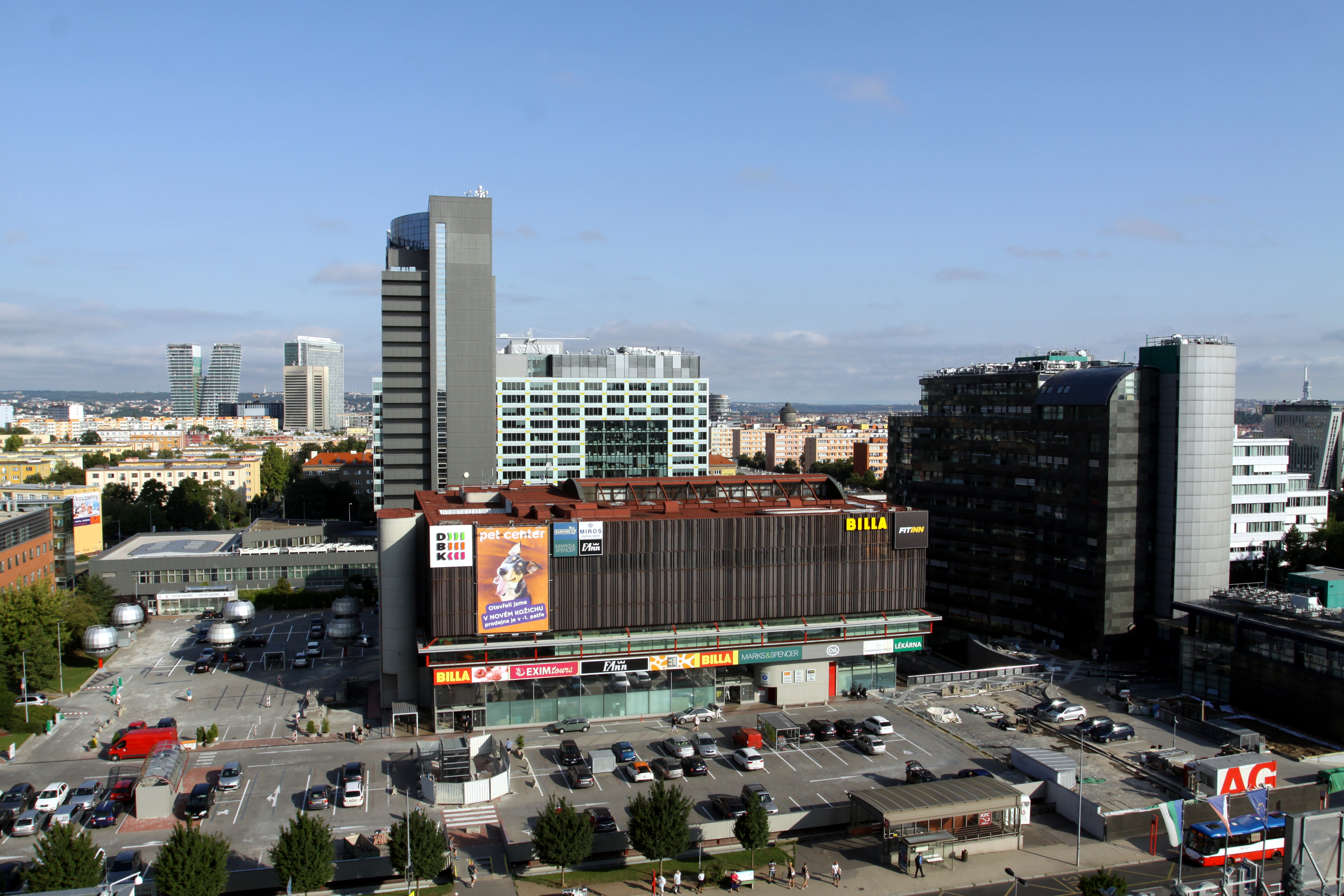 Budějovické square photographed from the top of the town hall of the Prague 4, Czechia